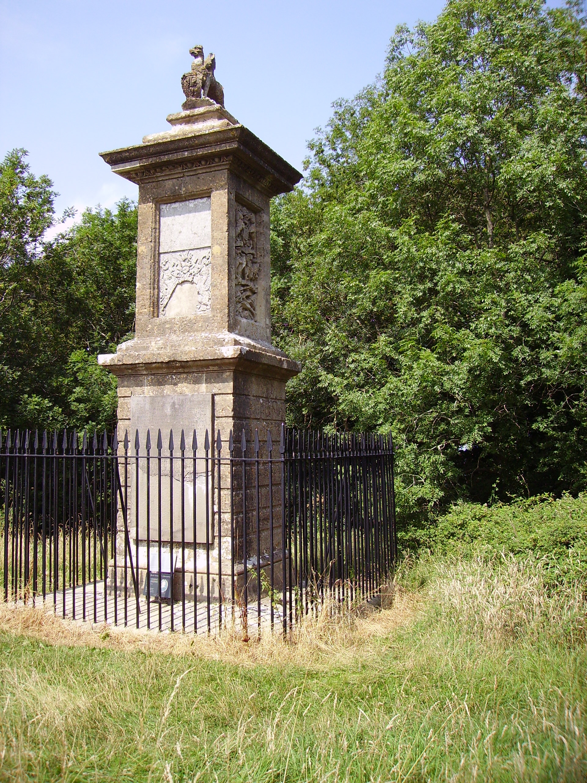 Photographer: User:Ballista